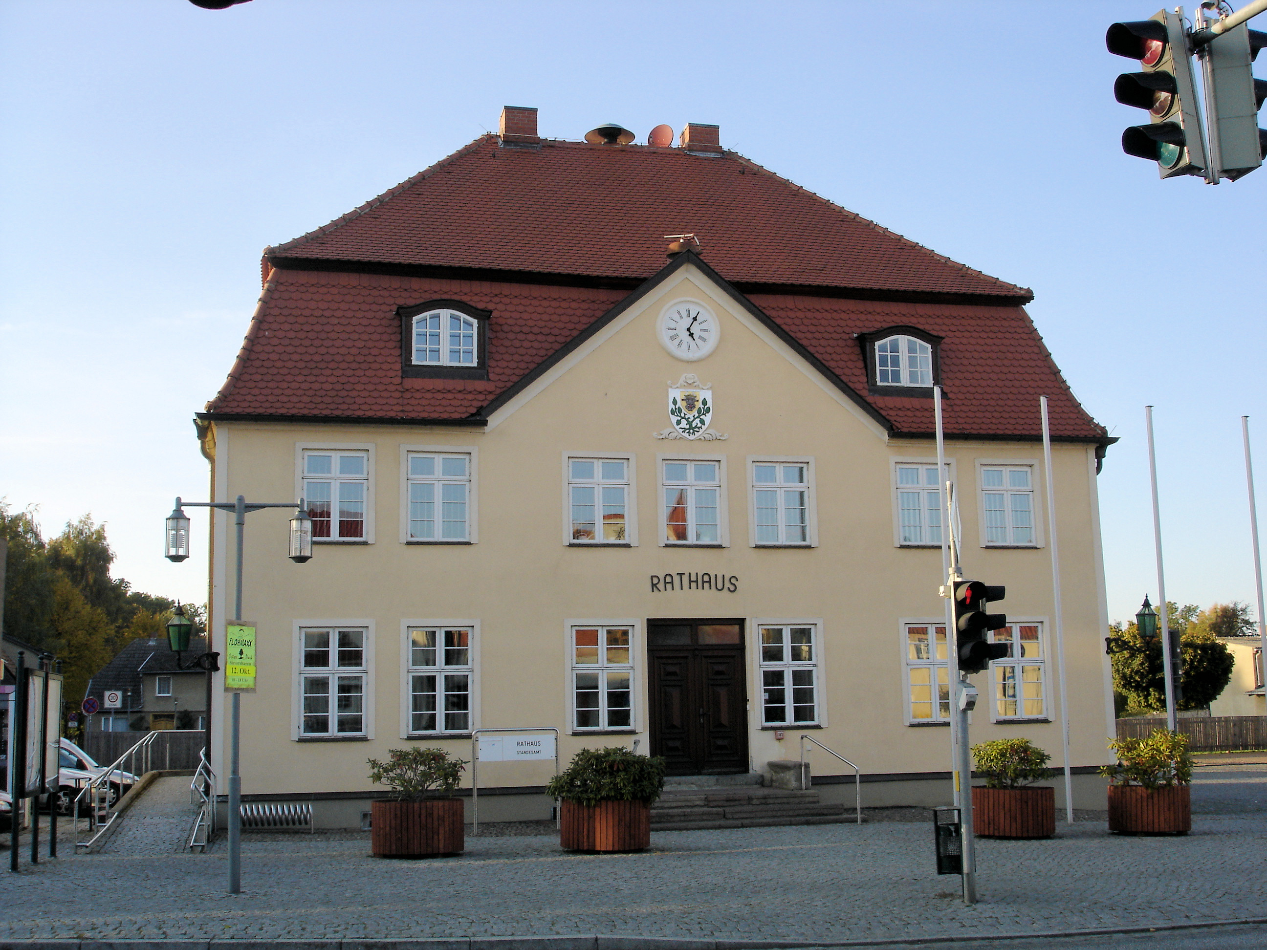 Town hall in Neubukow, Mecklenburg, Germany